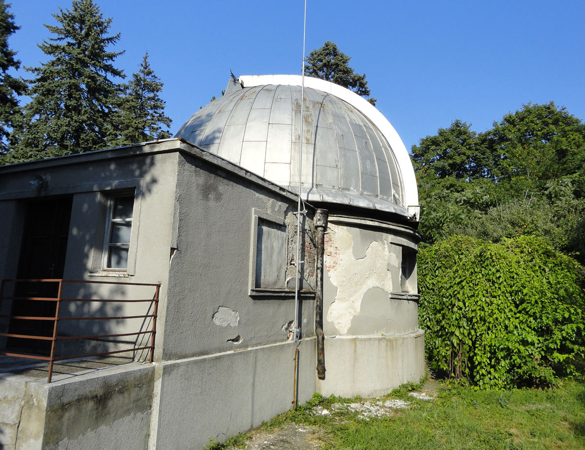 one of the buildings in the park of the observatory in belgrade